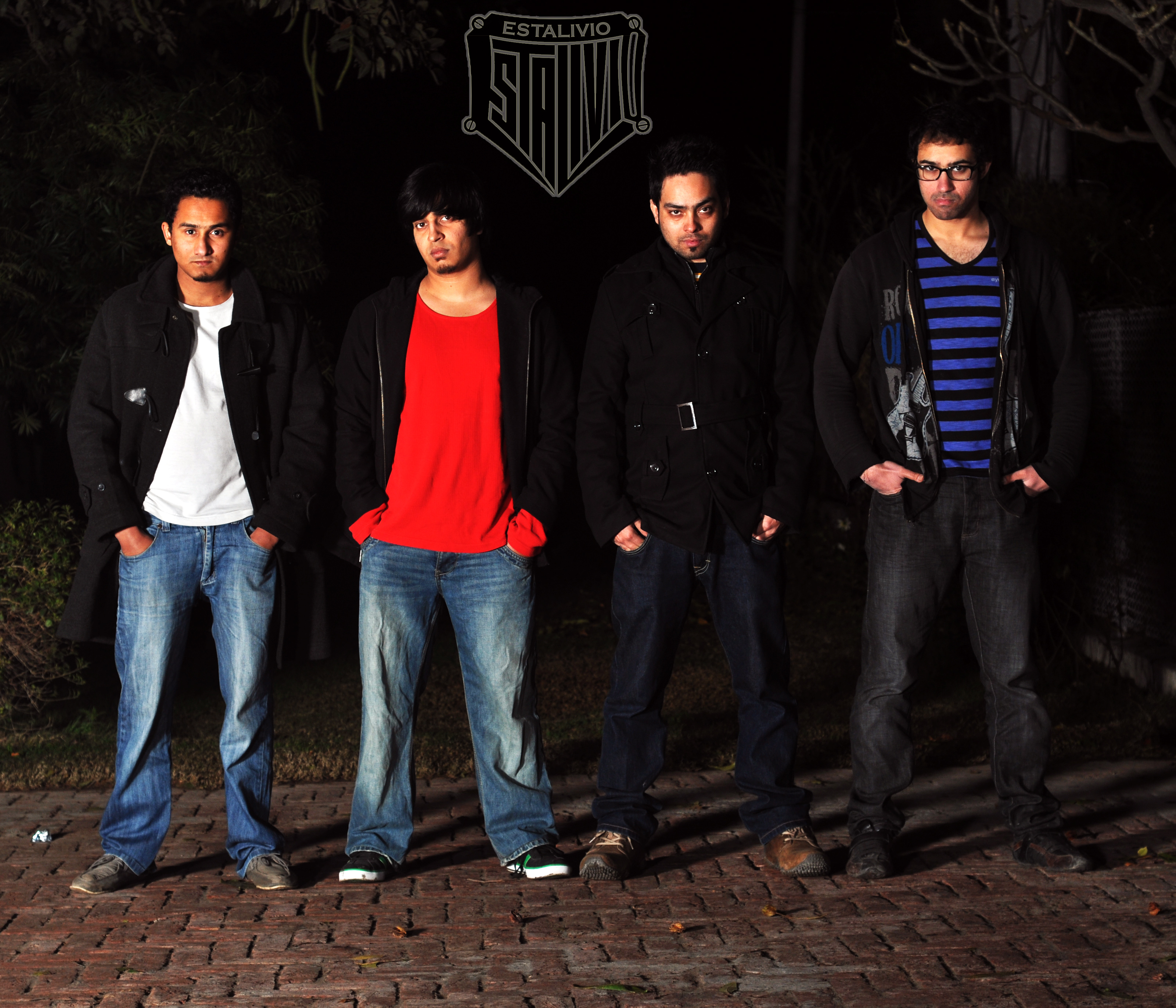 Photo of Pakistani band Esta Livio